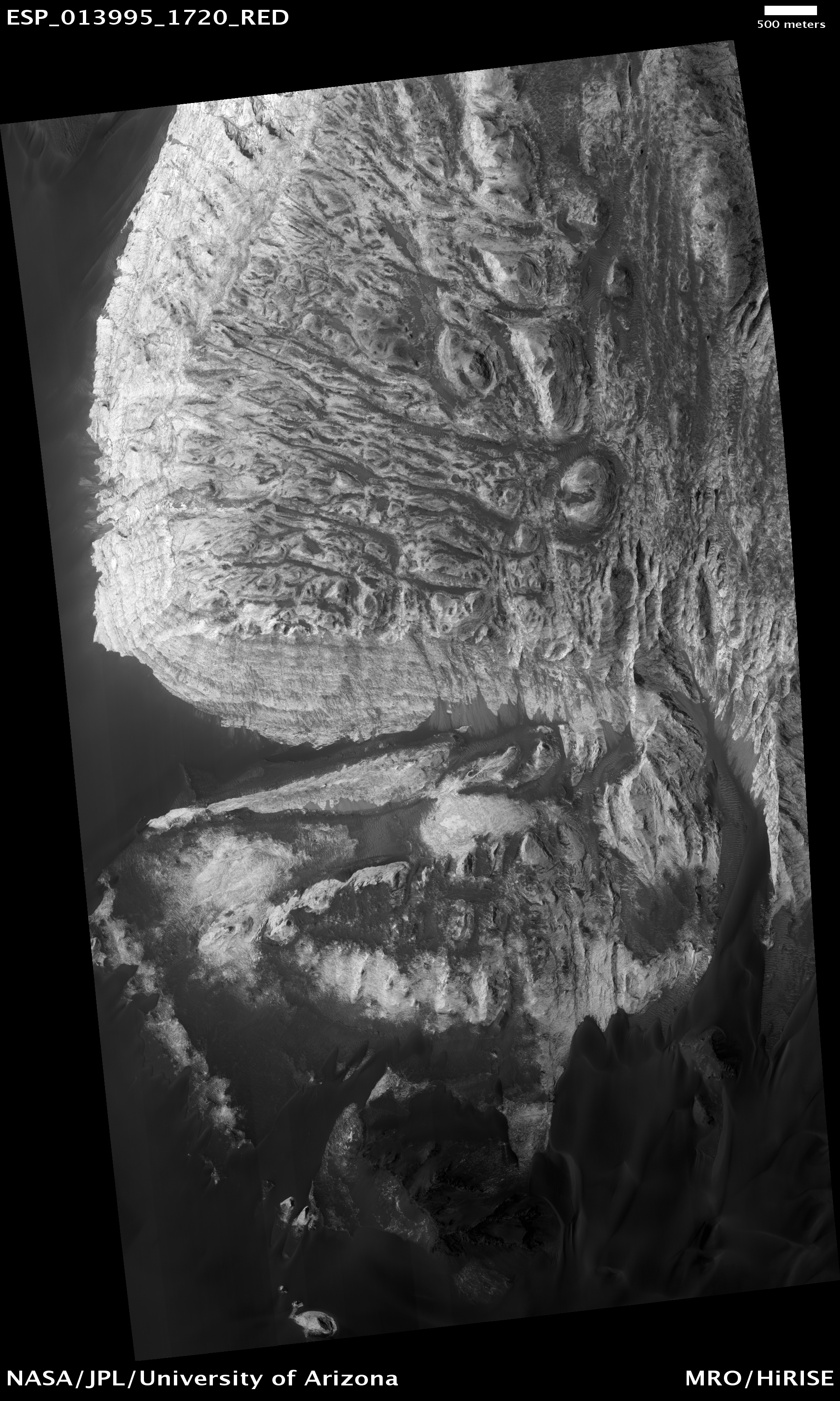 Ganges Mensa, as seen by hirise. Location is 7.7 S and 311.6 E.